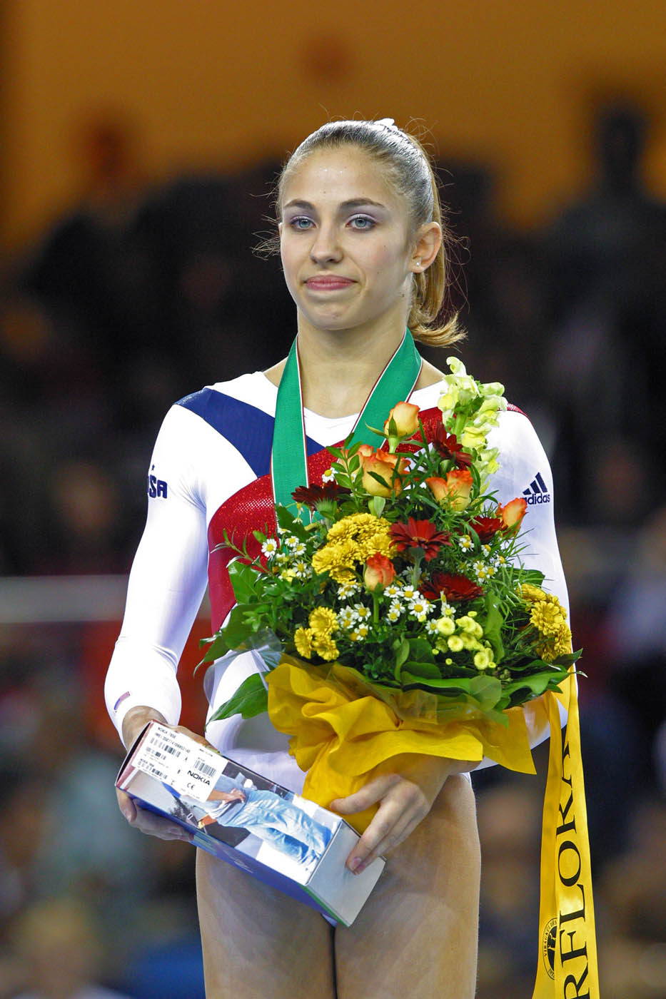 Chpt. Monde World Artistic Gymnastics Championships. Debrecen (HU) 23/11/2002